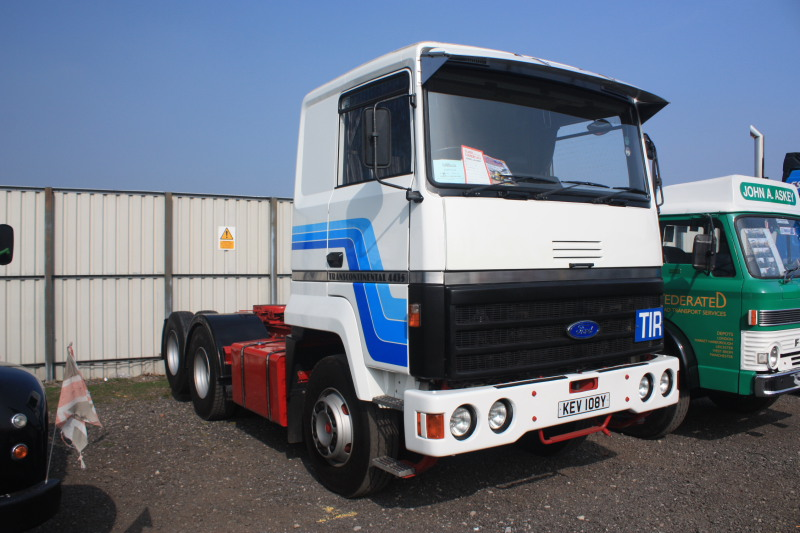 Ford Transcontinental 4435 at Donnington Park commercial vehicle show 2009 in England. (This image was also uploaded to the Tractor Wiki version of the Transcontinental] Article.